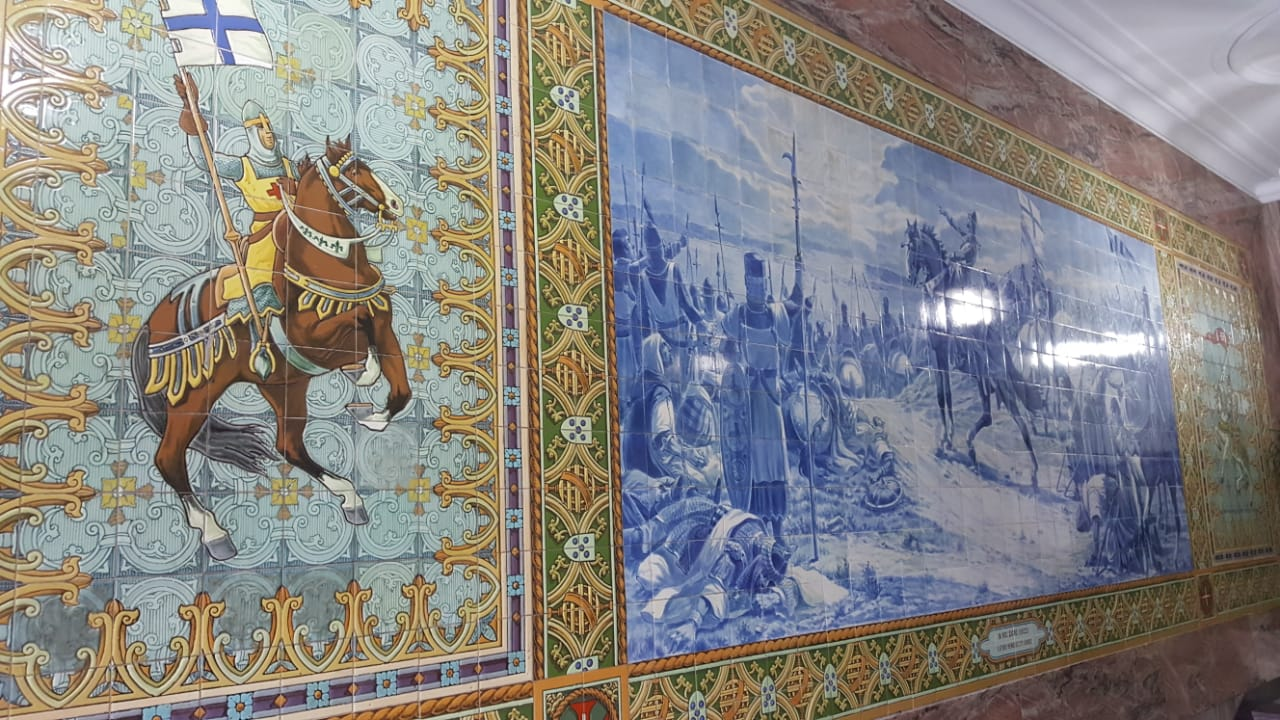 Tile panel inside the Liceu Literário Português, Rio de Janeiro, Brazil.